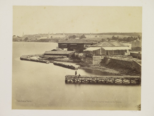 Kadıköy, Üsküdar, Selimiye Barracks 1857